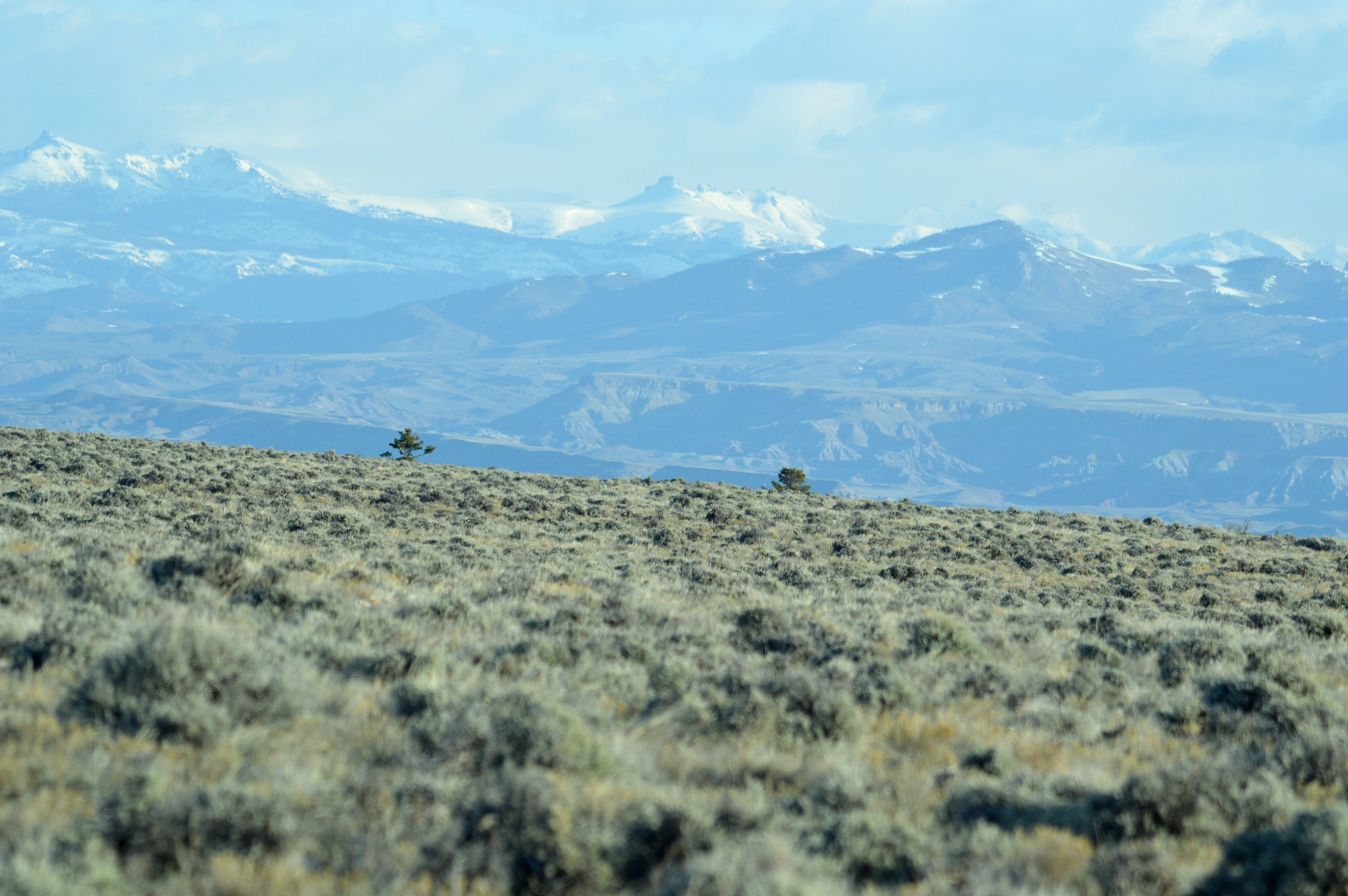 A view of the mountains on the Wind River Reservation in Wyoming. Photo by Jennifer Strickland, USFWS.